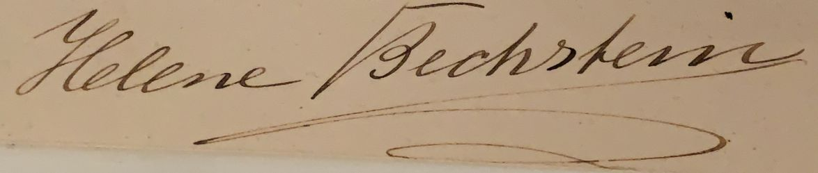 Original autograph of Helene Bechstein